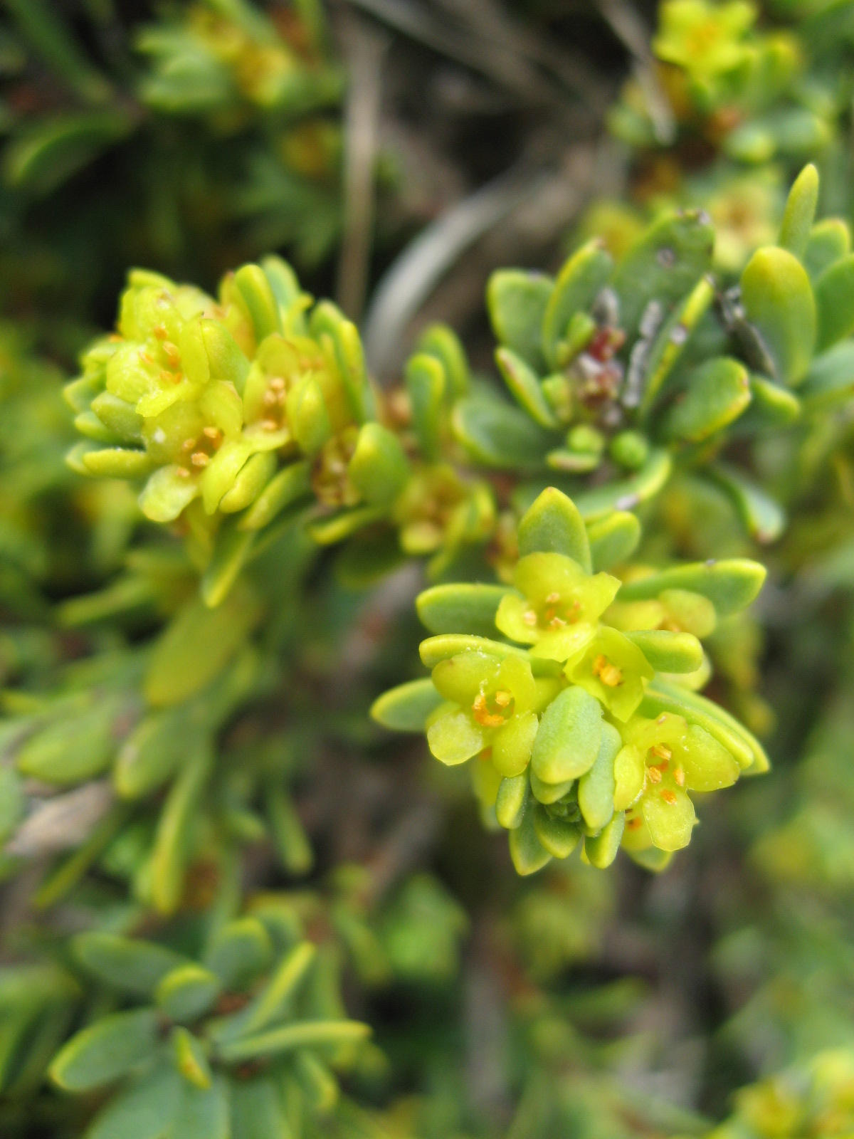 Thymelaea tinctoria ssp. nivalis